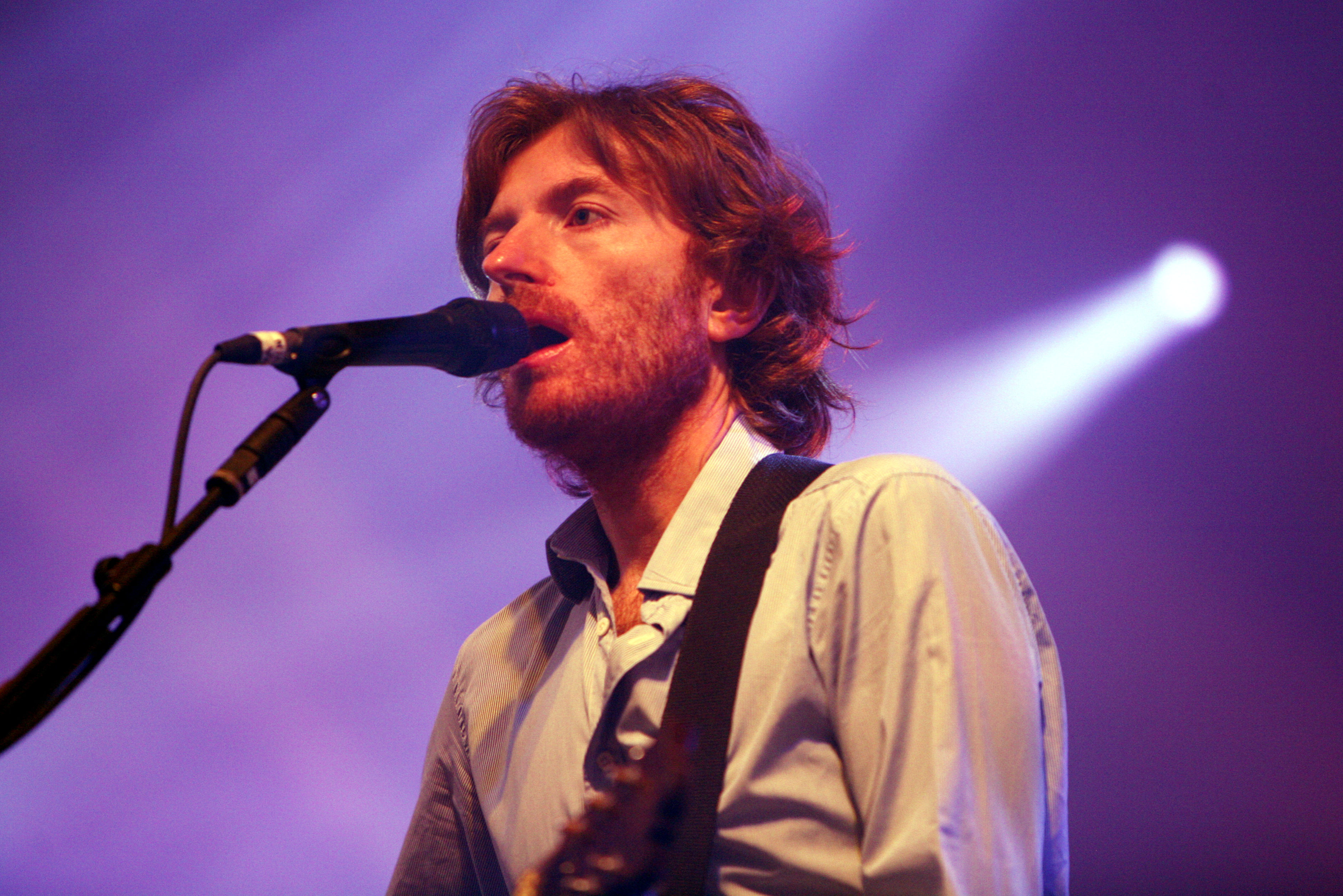 Air at the Eurockéennes of 2007